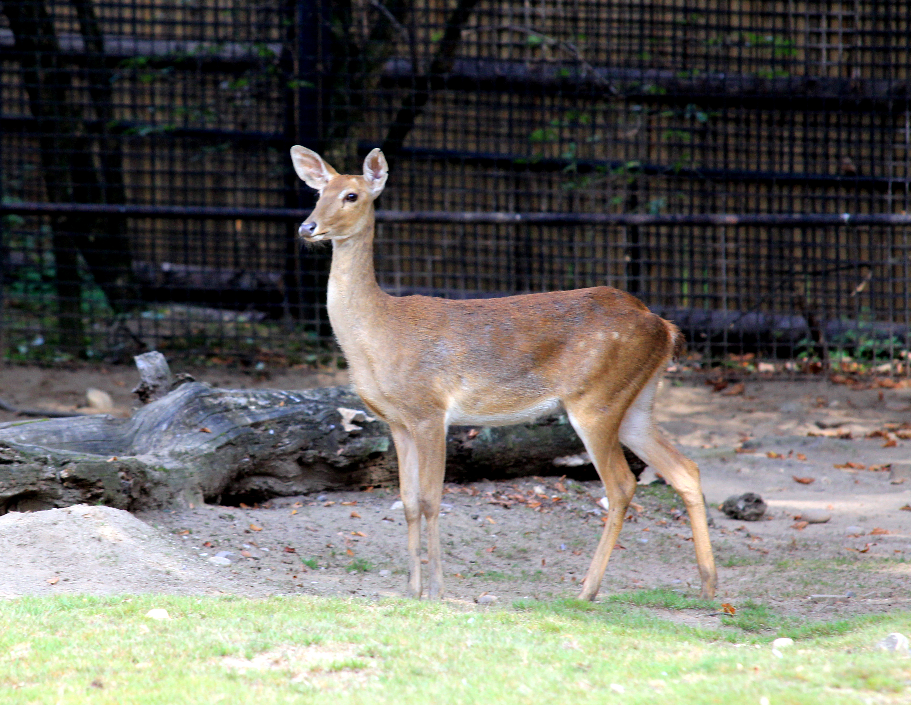 Eld's Deer (Cervus eldii) in Prague Zoo, Czech Republic